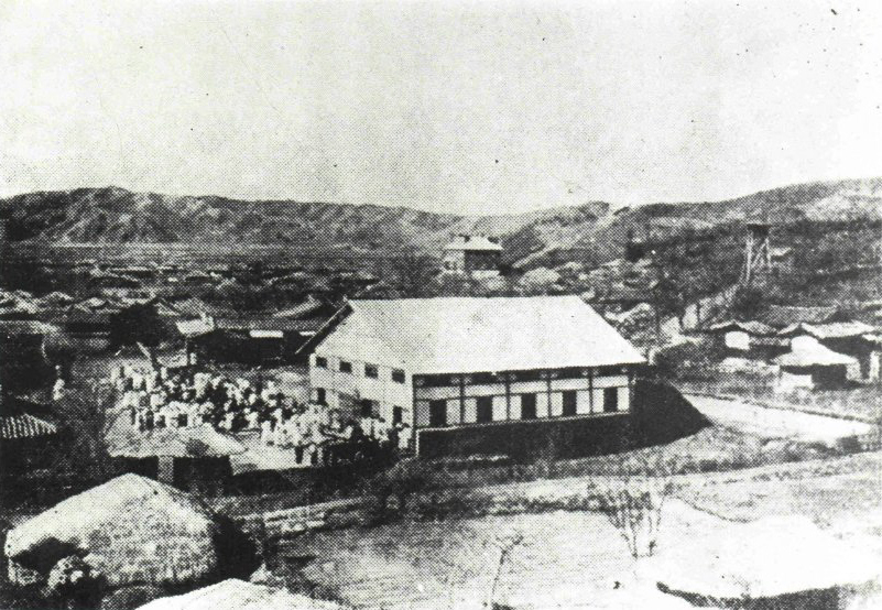 Andong Church in 1914